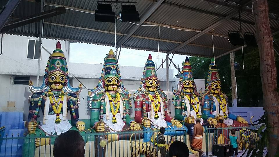 There are five saint god in Muniyappan temple in Vennandur. The Muniyappan are saves the village.